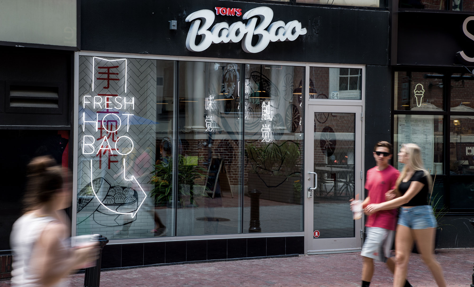 Photo of the outside of Tom's_BaoBao's first location in Harvard Square, MA